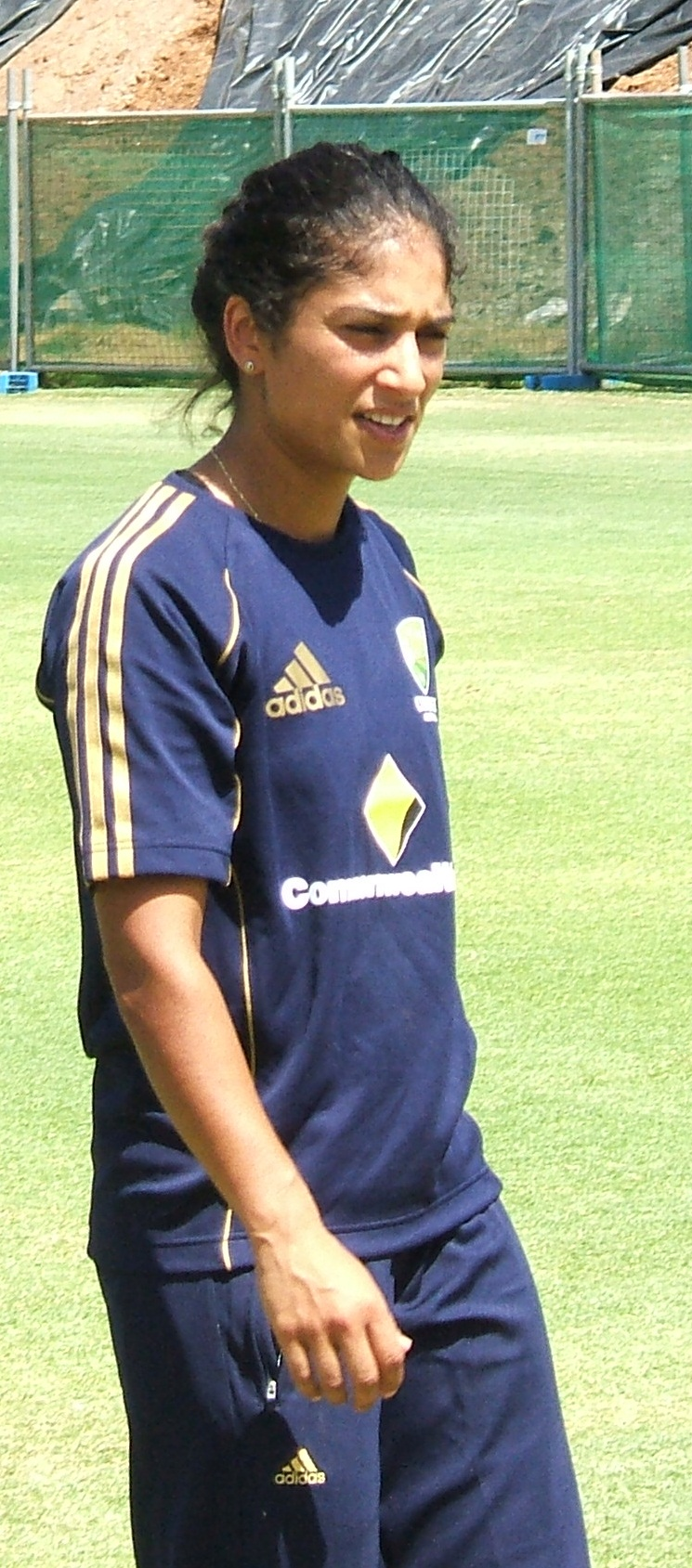 Named person engaging in named action at Adelaide Oval nets/training ground